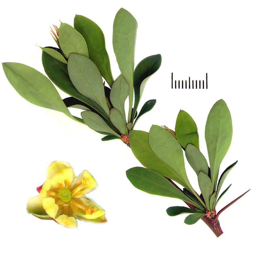 Shoot and flower of Berberis thunbergii